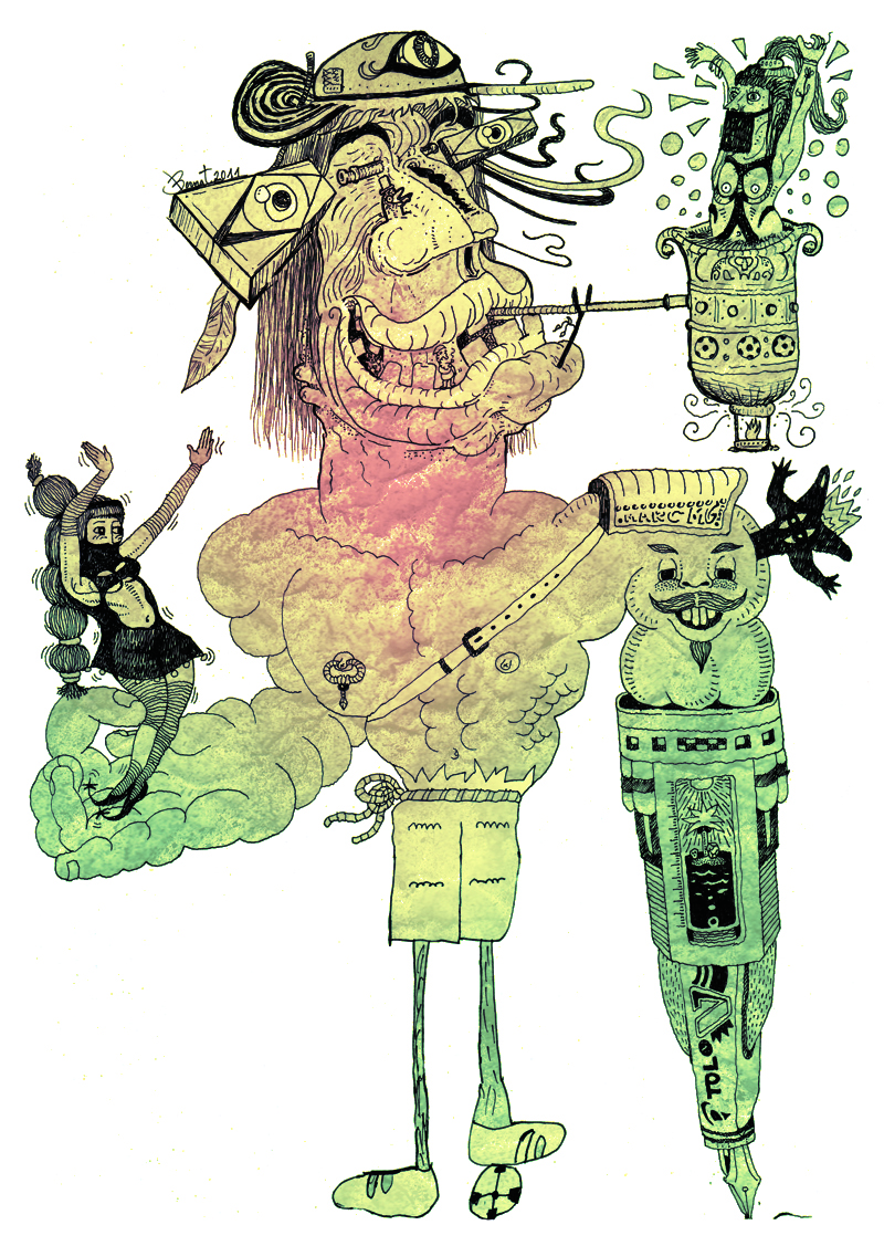 A Cadavre exquis (Exquiste Corpse) by Marc M. Gustà, Bernat M. Gustà & Irene Alcón.